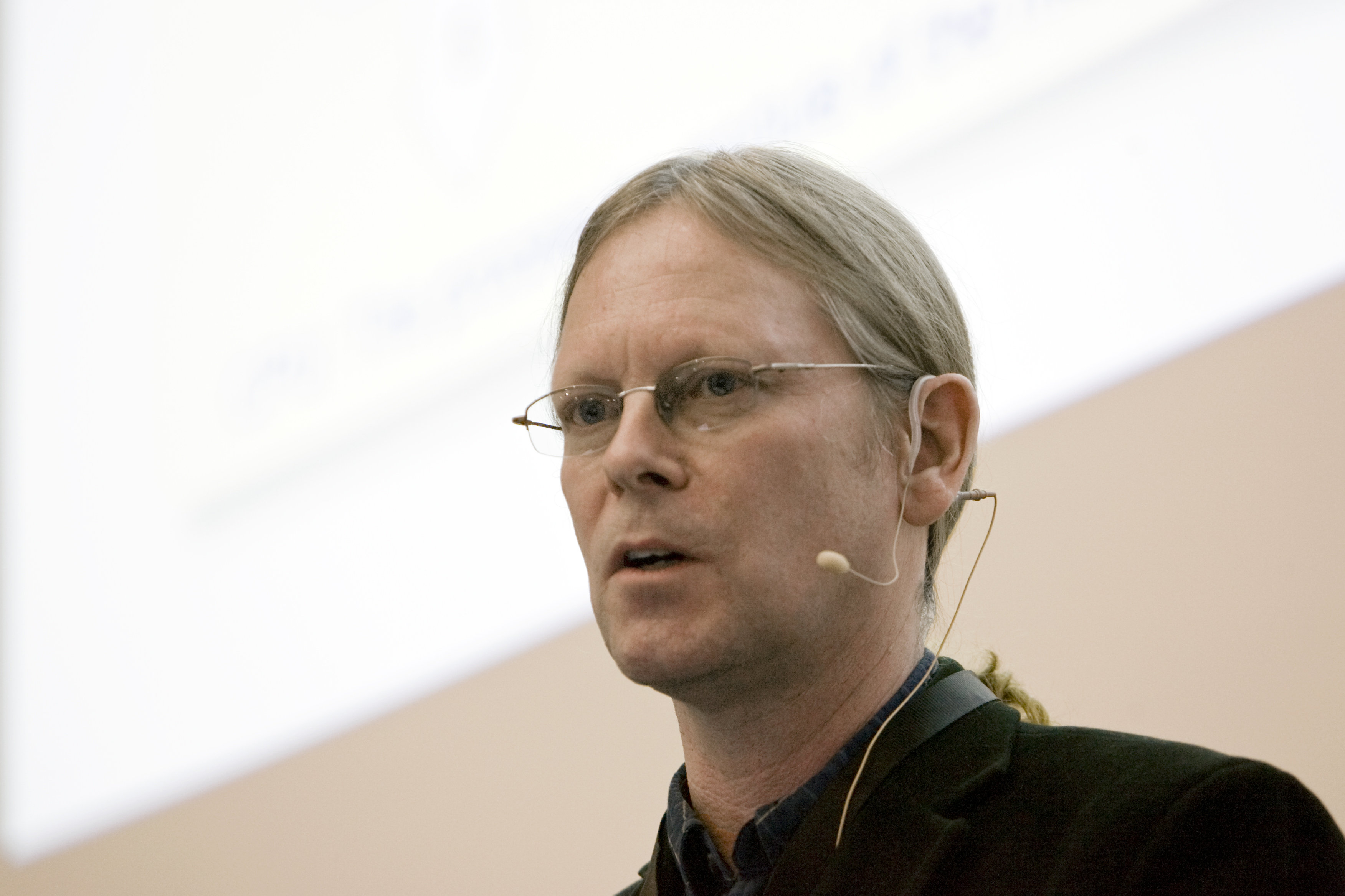 Dave Raggett speaking at the Internet of Things conference in Swissotel Oerlikon, Zürich, Switzerland, 27-28 March 2008.